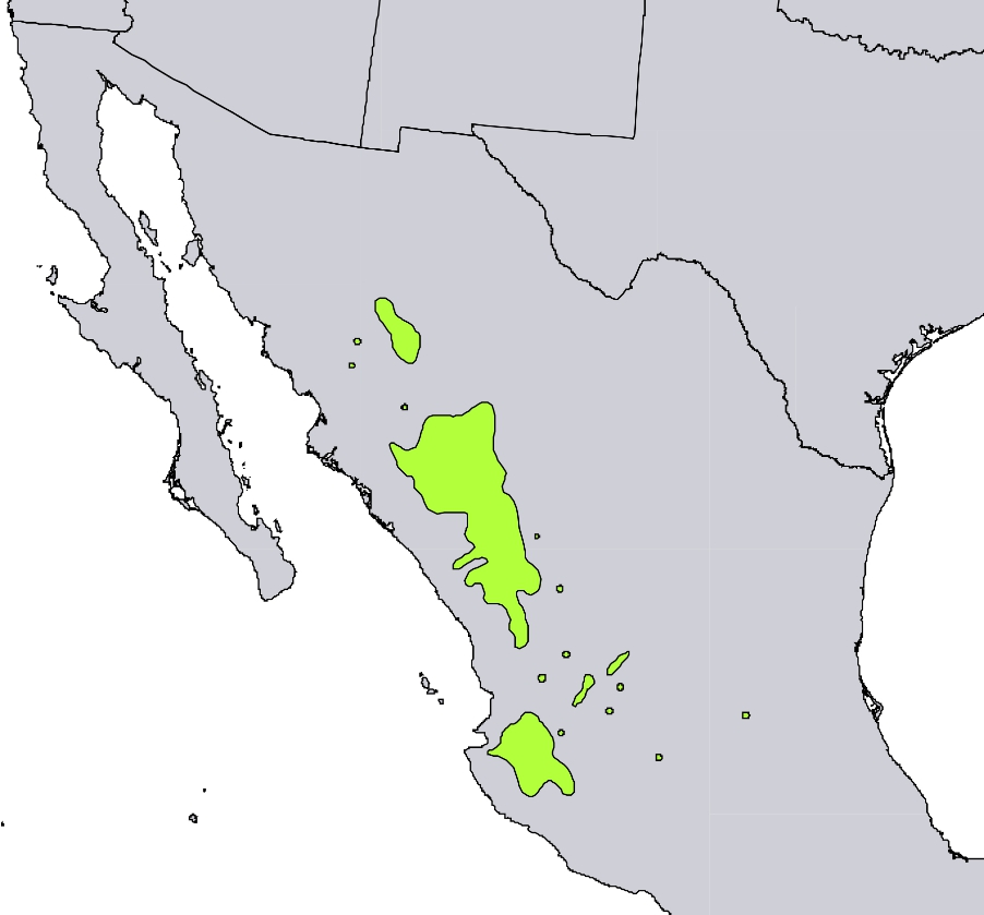 Range map of Pinus lumholtzii